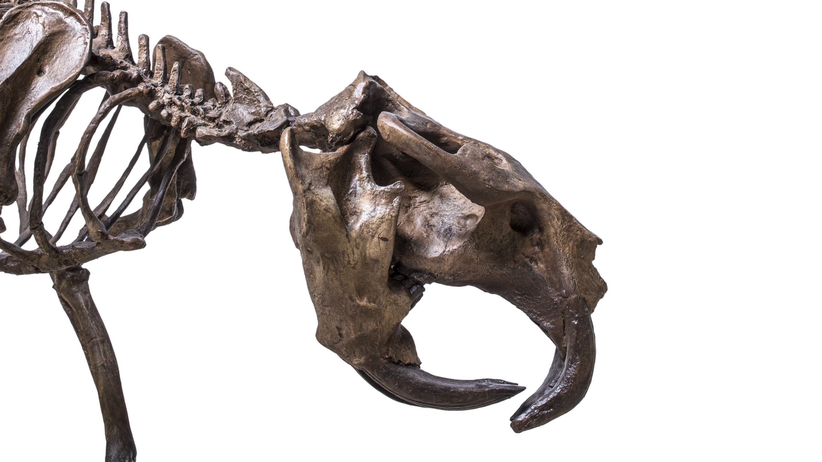 Replica.